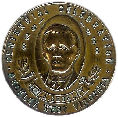 Beckley WV Centennial Medal